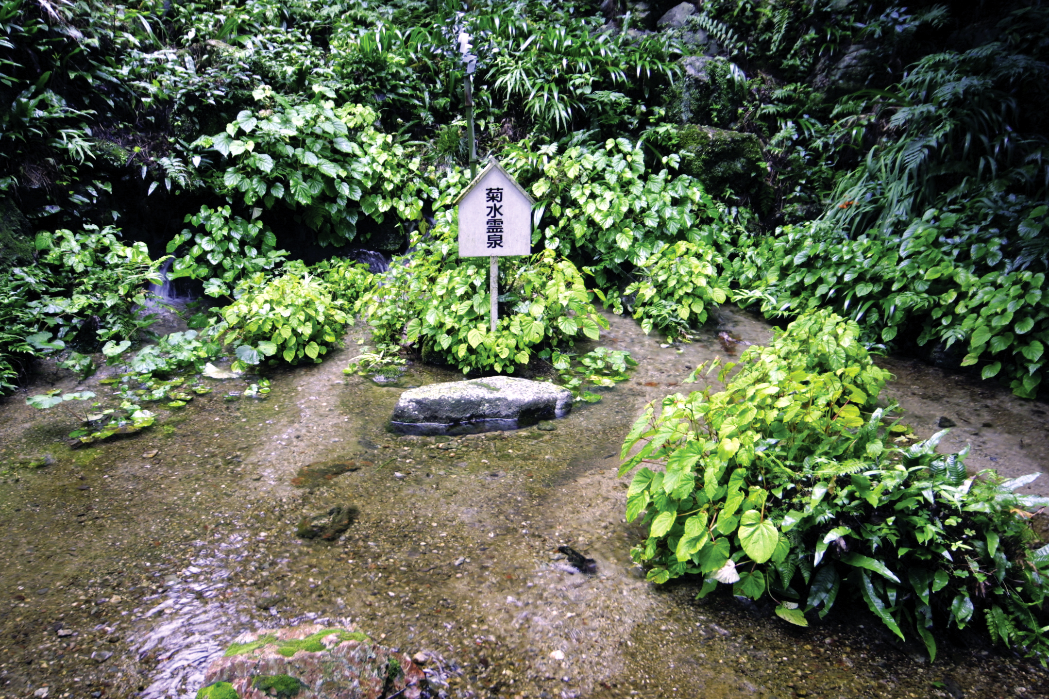 Kikusui fountain in Yorojinja